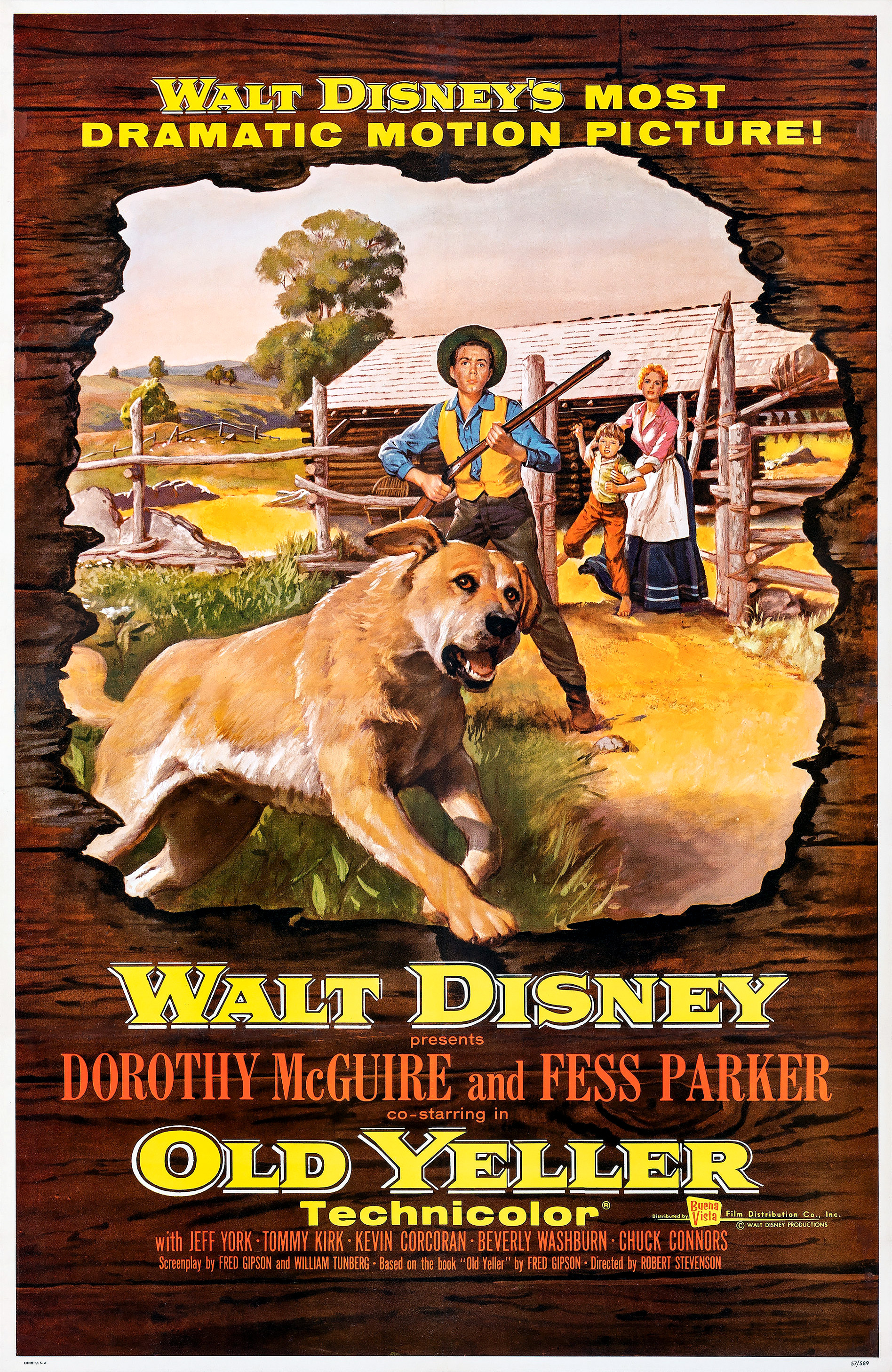 Theatrical release poster for the 1957 film Old Yeller, based on the 1956 children's novel of the same name.